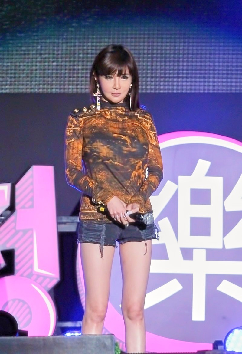 Park Bom at the Samsung Passion Talk on September 2013.